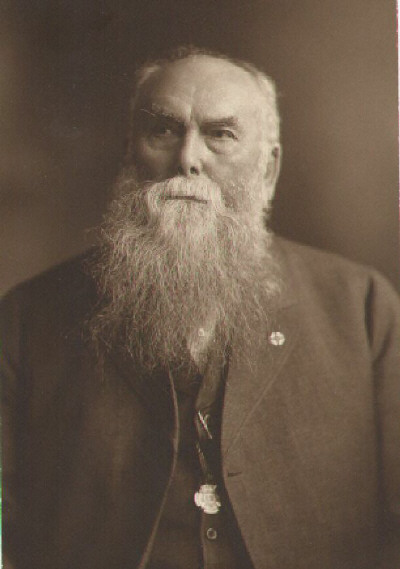 Photo of Erhard Brielmaier